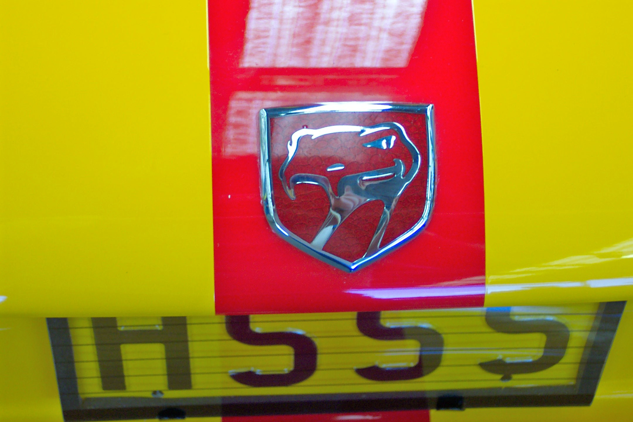 1995 Dodge Viper RT/10 coupe boot lid badge. Taken at the 2003 New South Wales All Chrysler Day, held at Fairfield Showground, Prairiewood, Sydney.